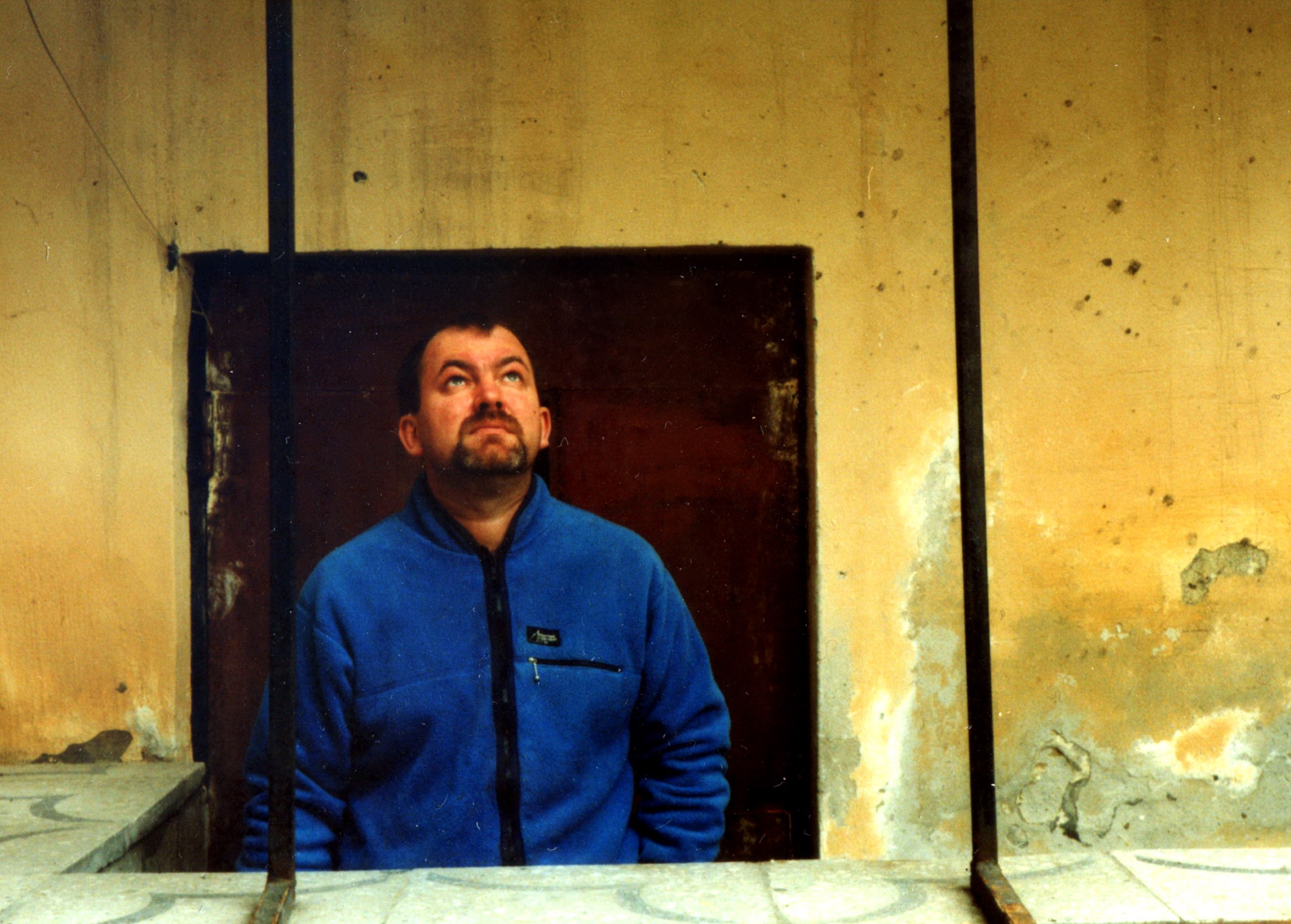 Artist Mуroslav Yagoda near his studio in Lviv, Ukraine. 1999